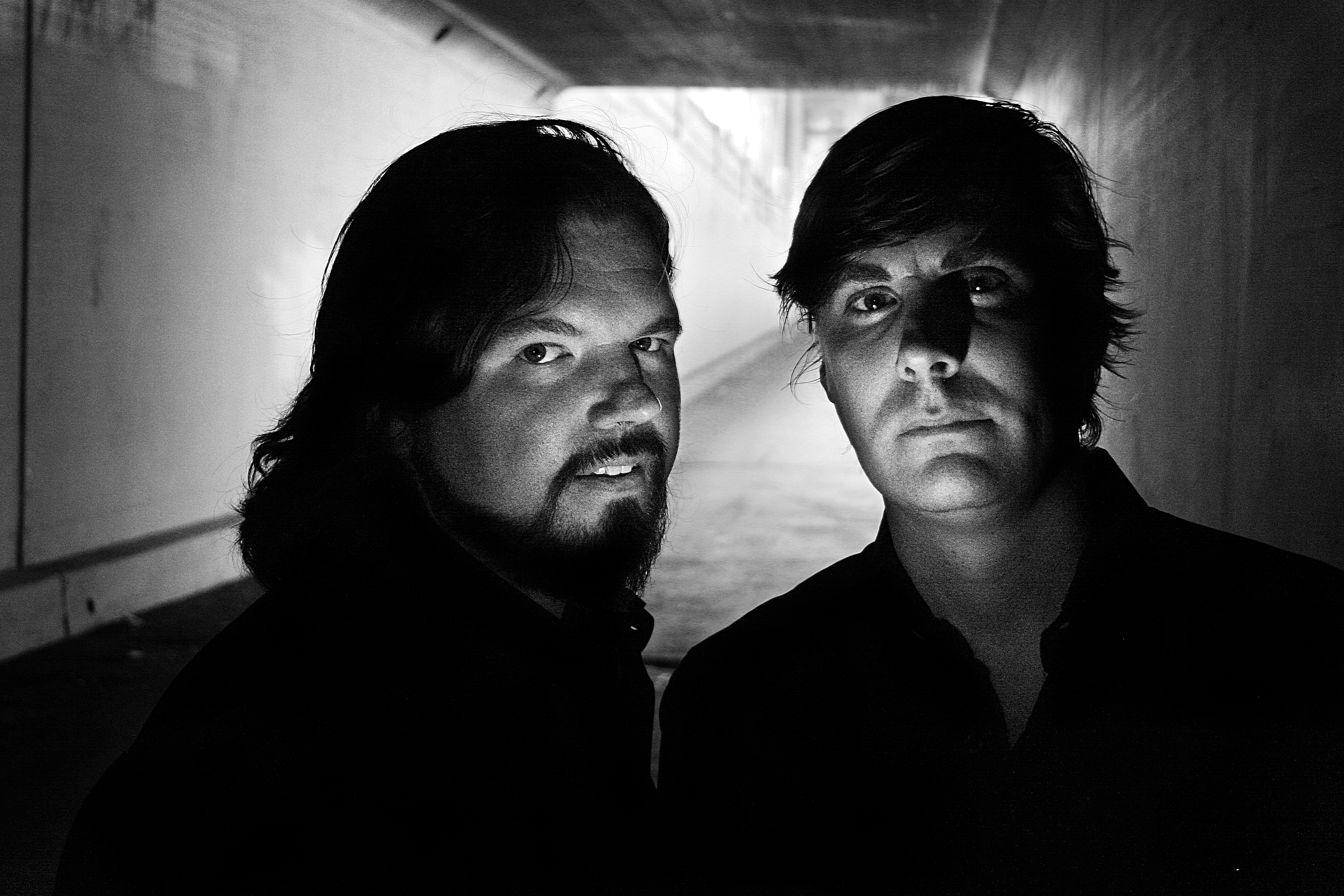 Writing team of Marcus Dunstan and Patrick Melton